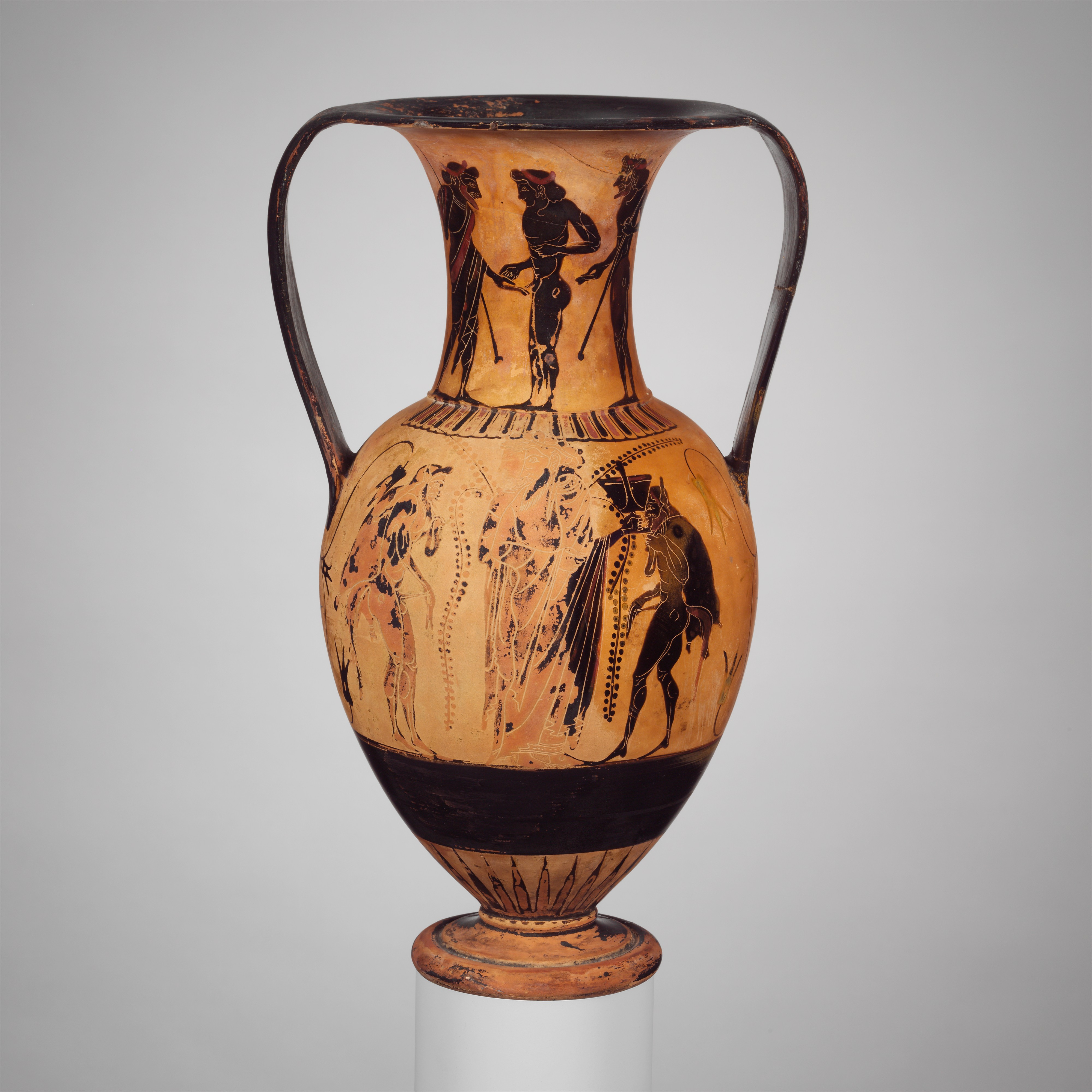 Greek, Attic; Neck-amphora of Nicosthenic shape; Vases